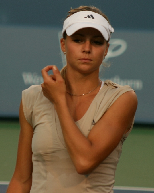 Maria Kirilenko at Cincinnati in 2008